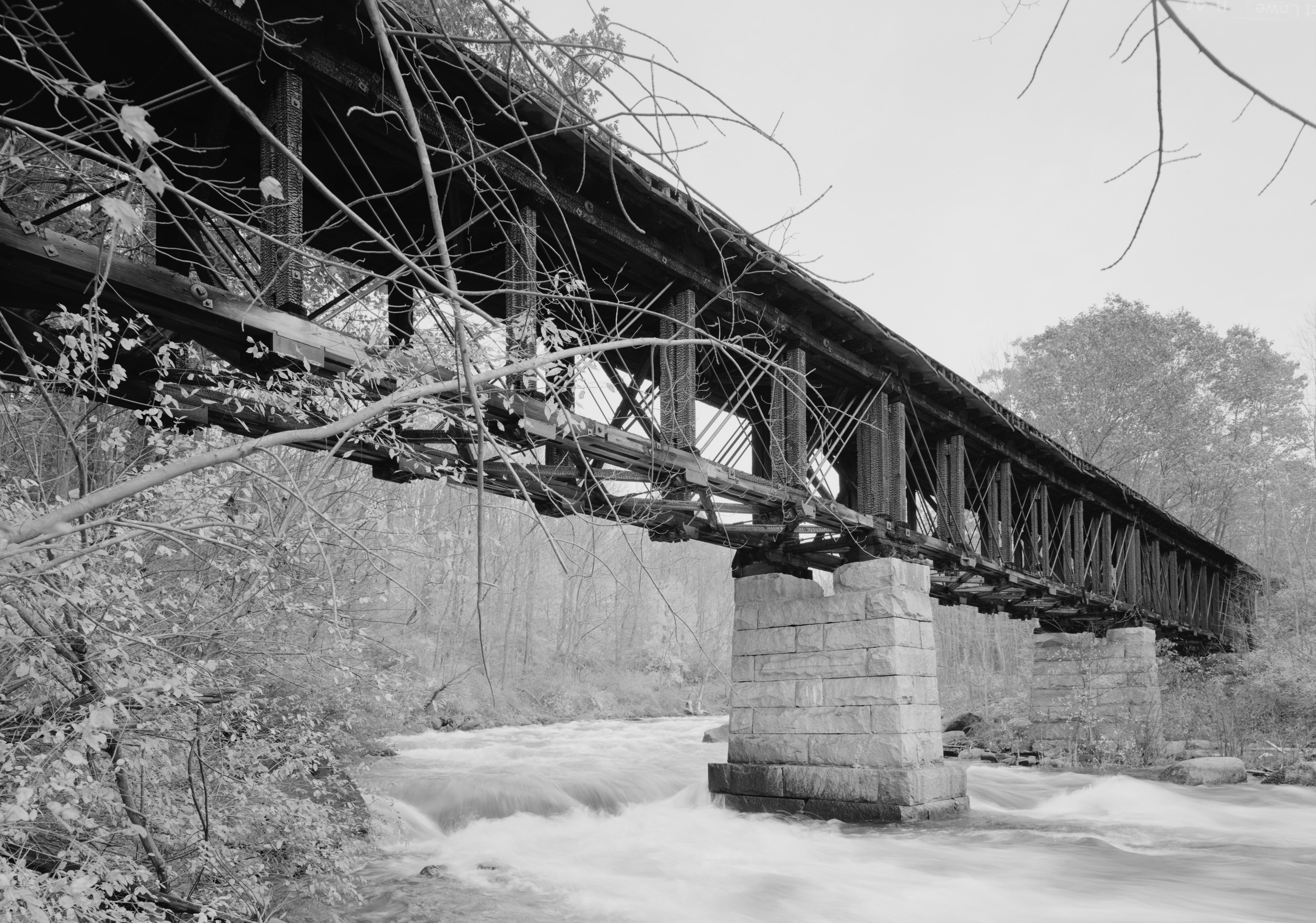 Sulphite Railroad Bridge, Former Boston & Maine Railroad (originally Tilton , Franklin (Merrimack County, New Hampshire)